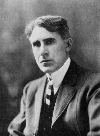 The author Zane Grey.